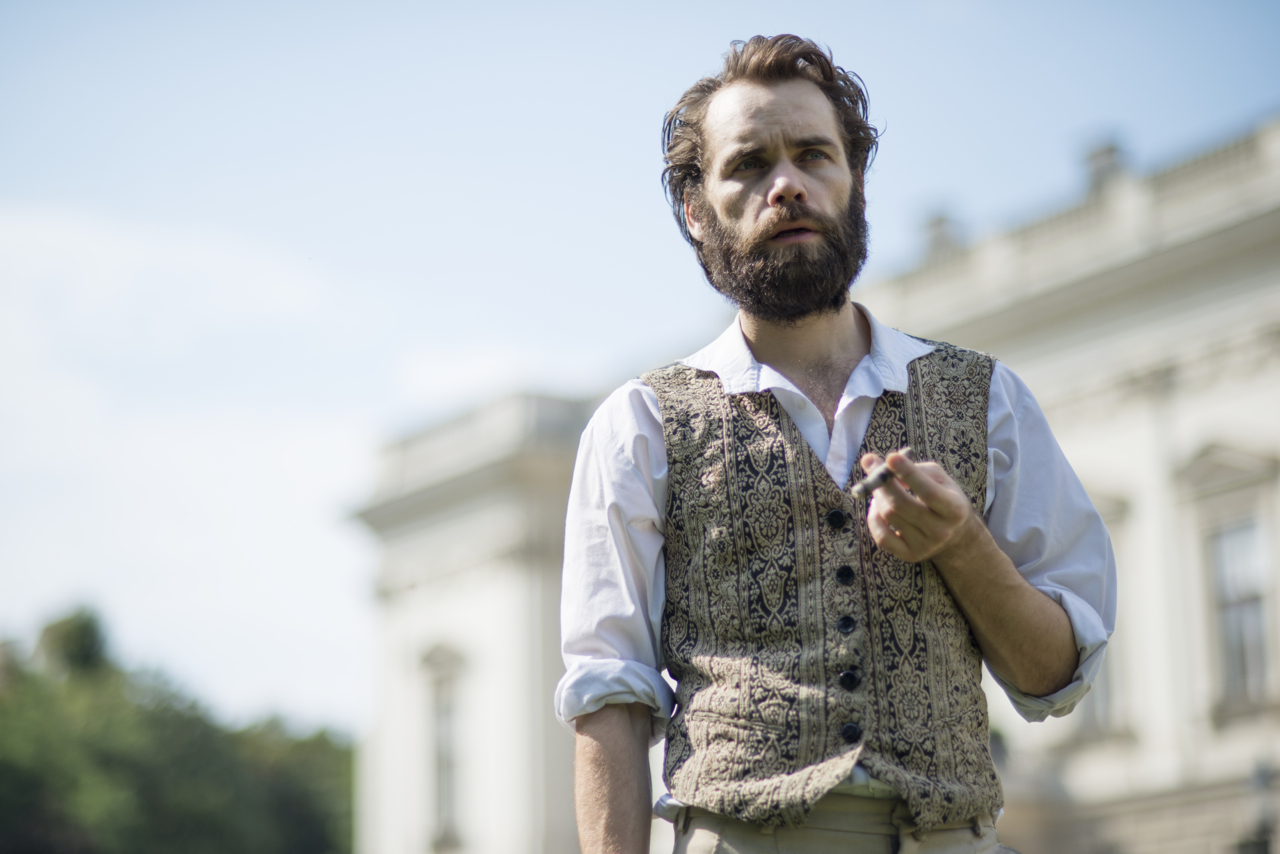 Bernhard Klampfl